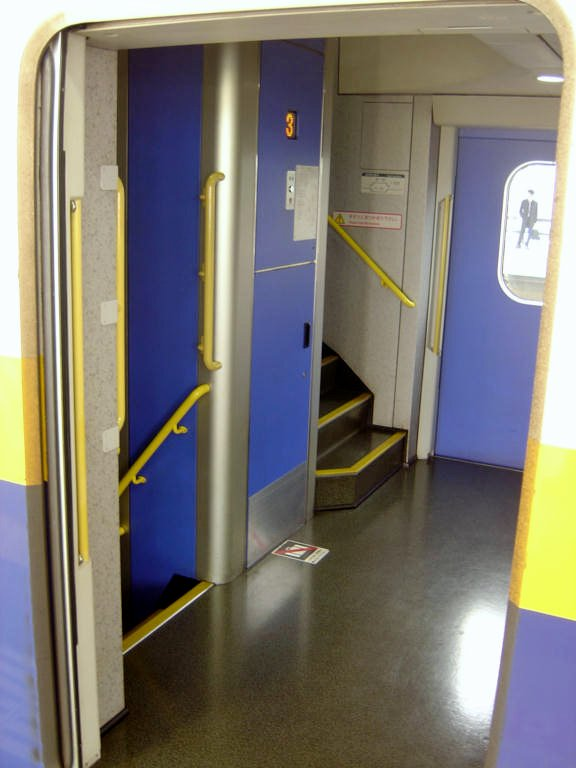 Deck of JR East E4 series shinkansen (taken at Koriyama Station)